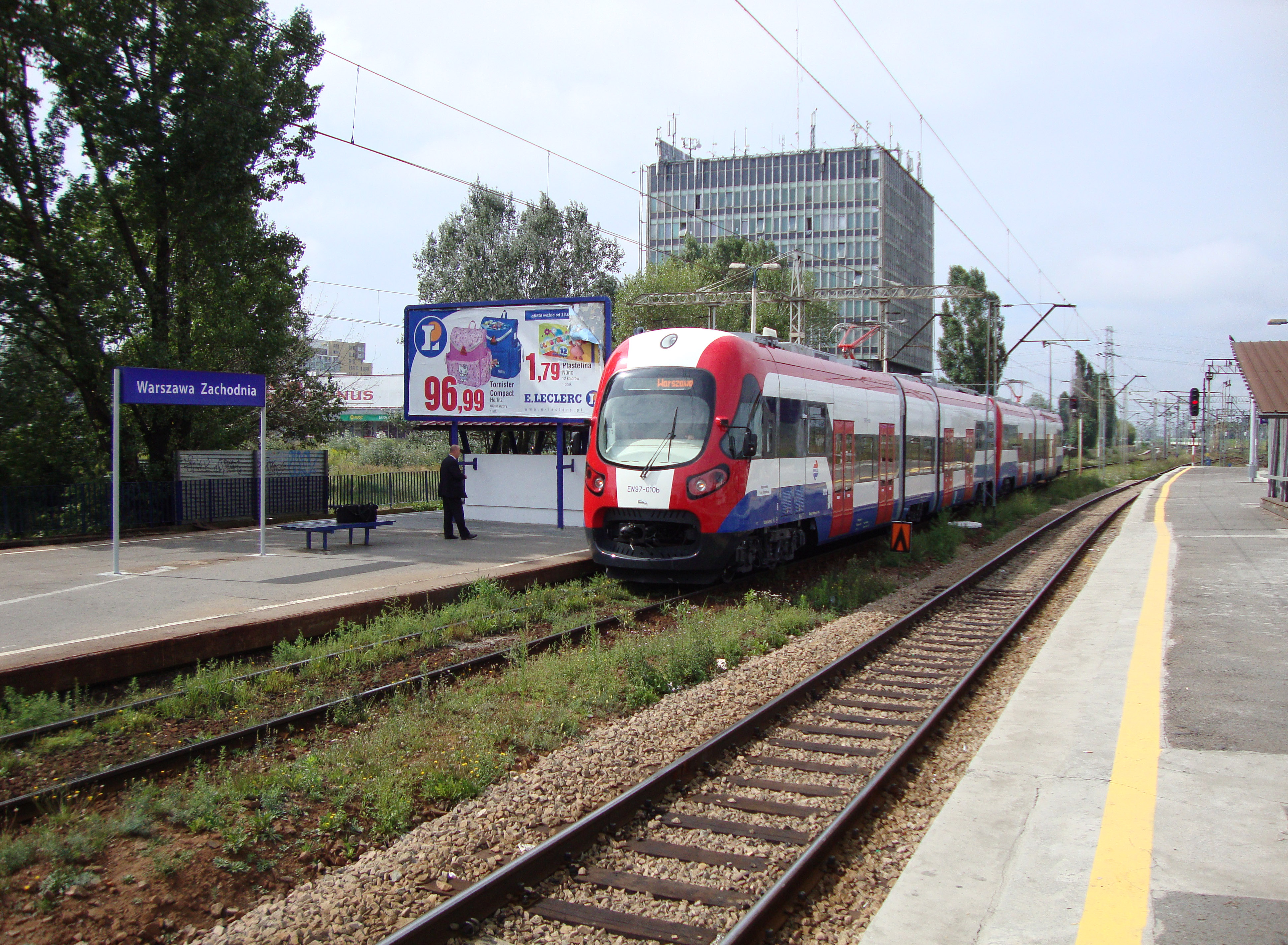 PESA 33WE entering Warszawa Zachodnia train station.